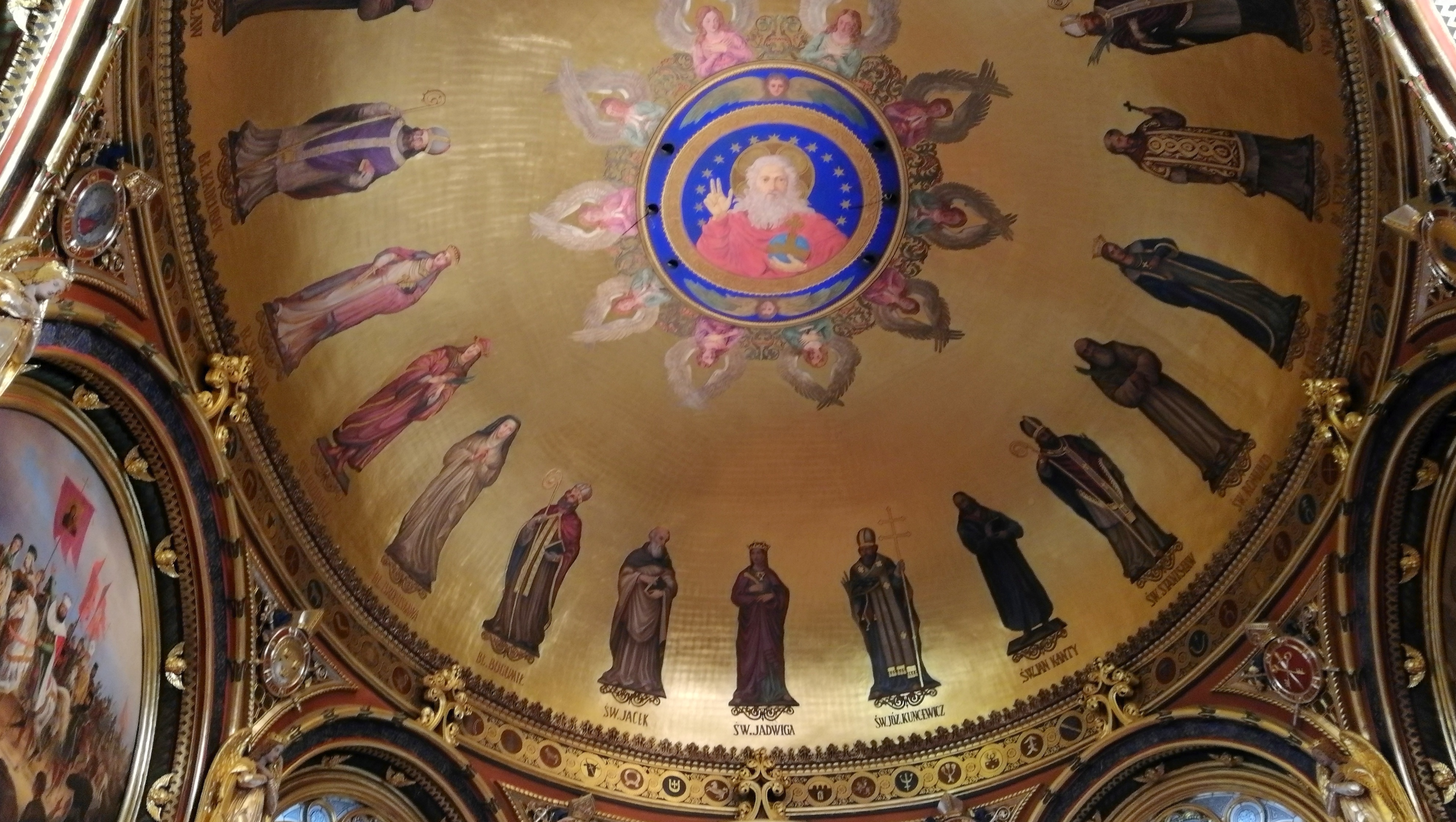 Zlatá kaple - strop